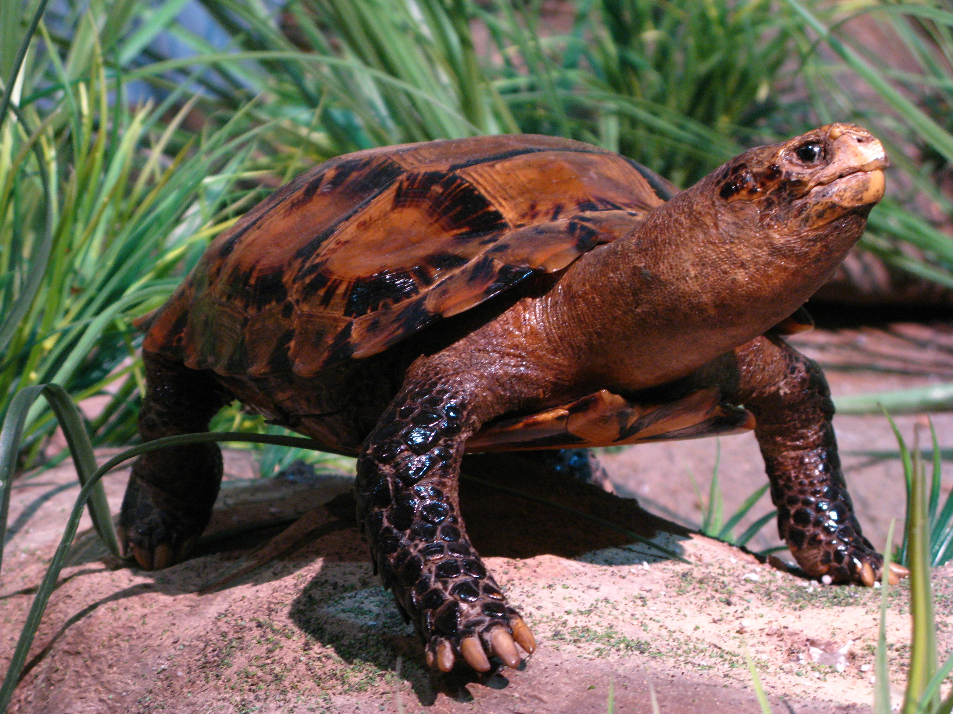 A Manouria impressa specimen.